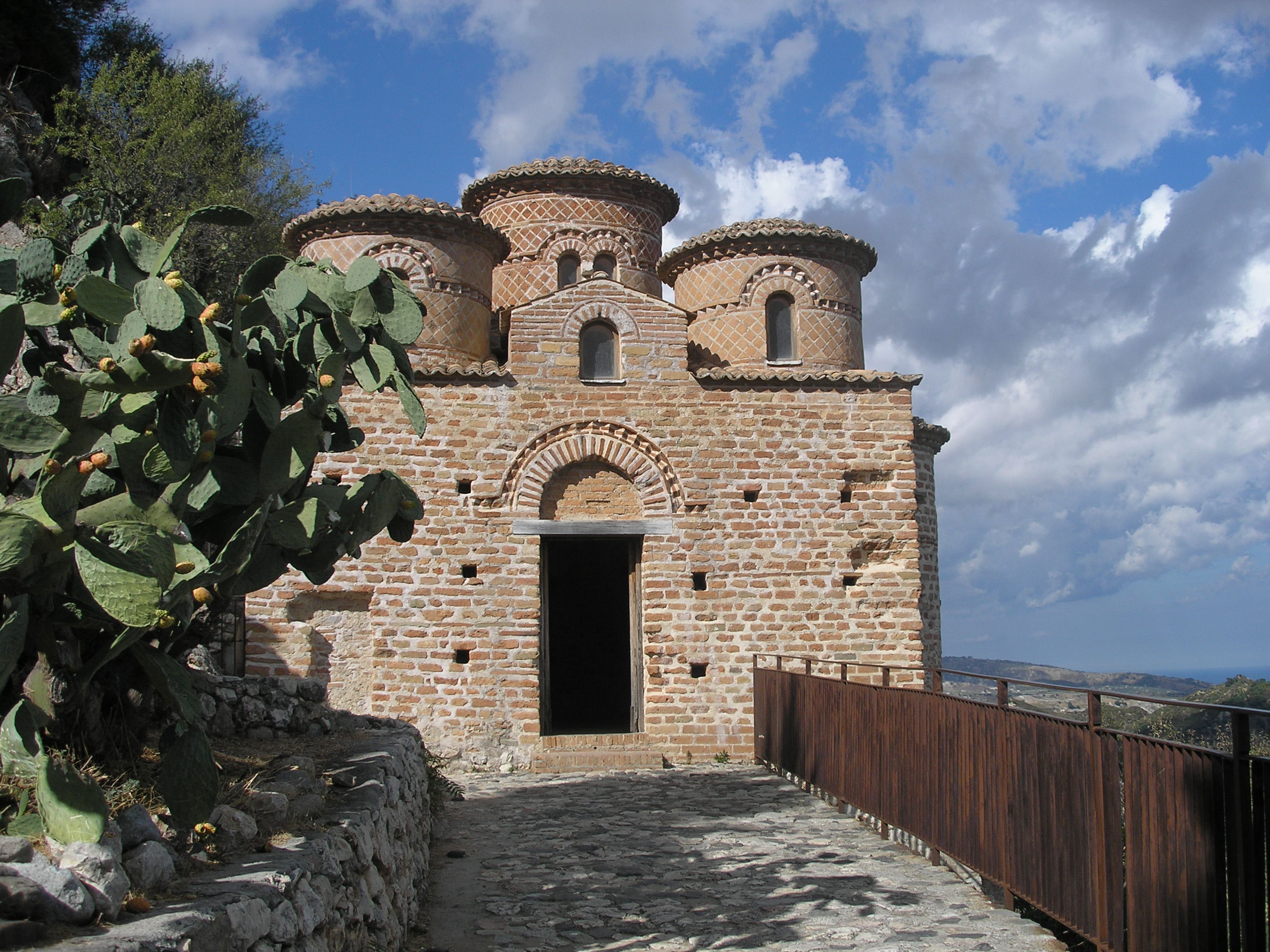 Cattolica Stilo 1